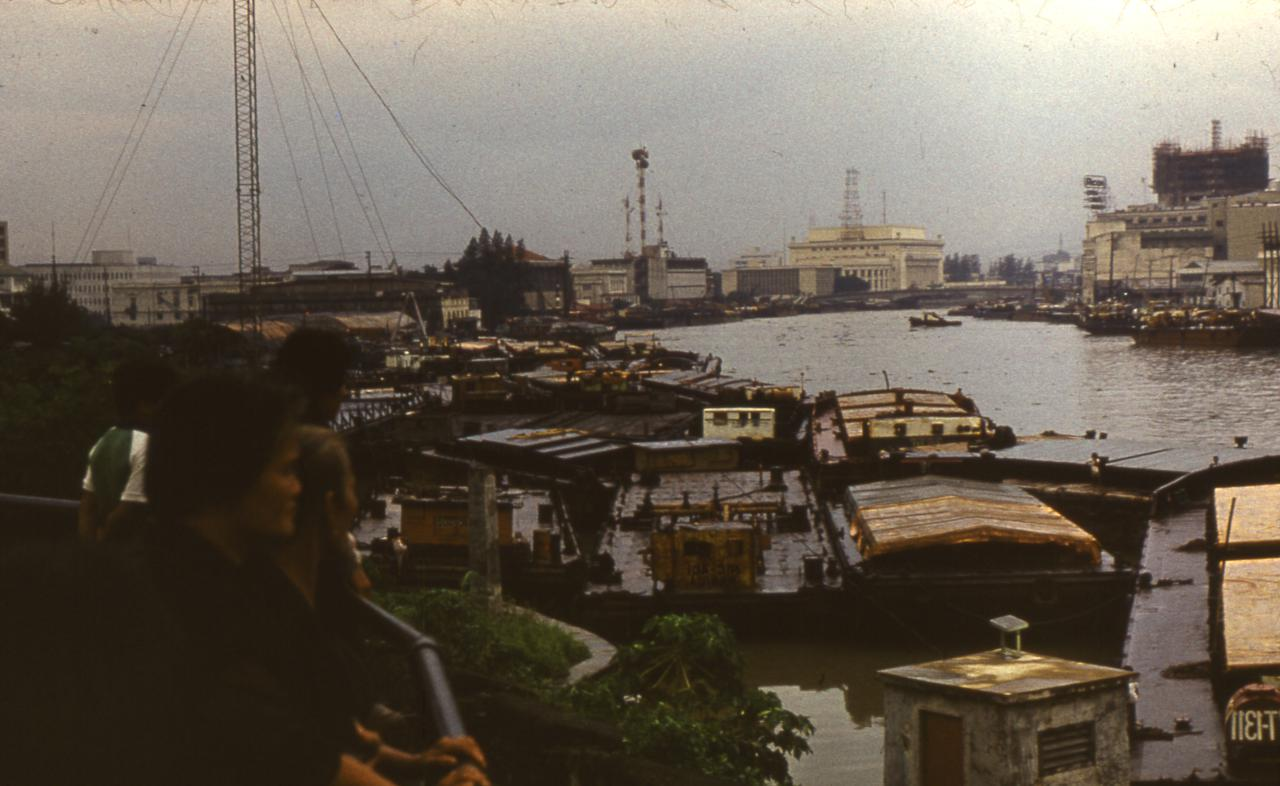 Floating houses in old harbour